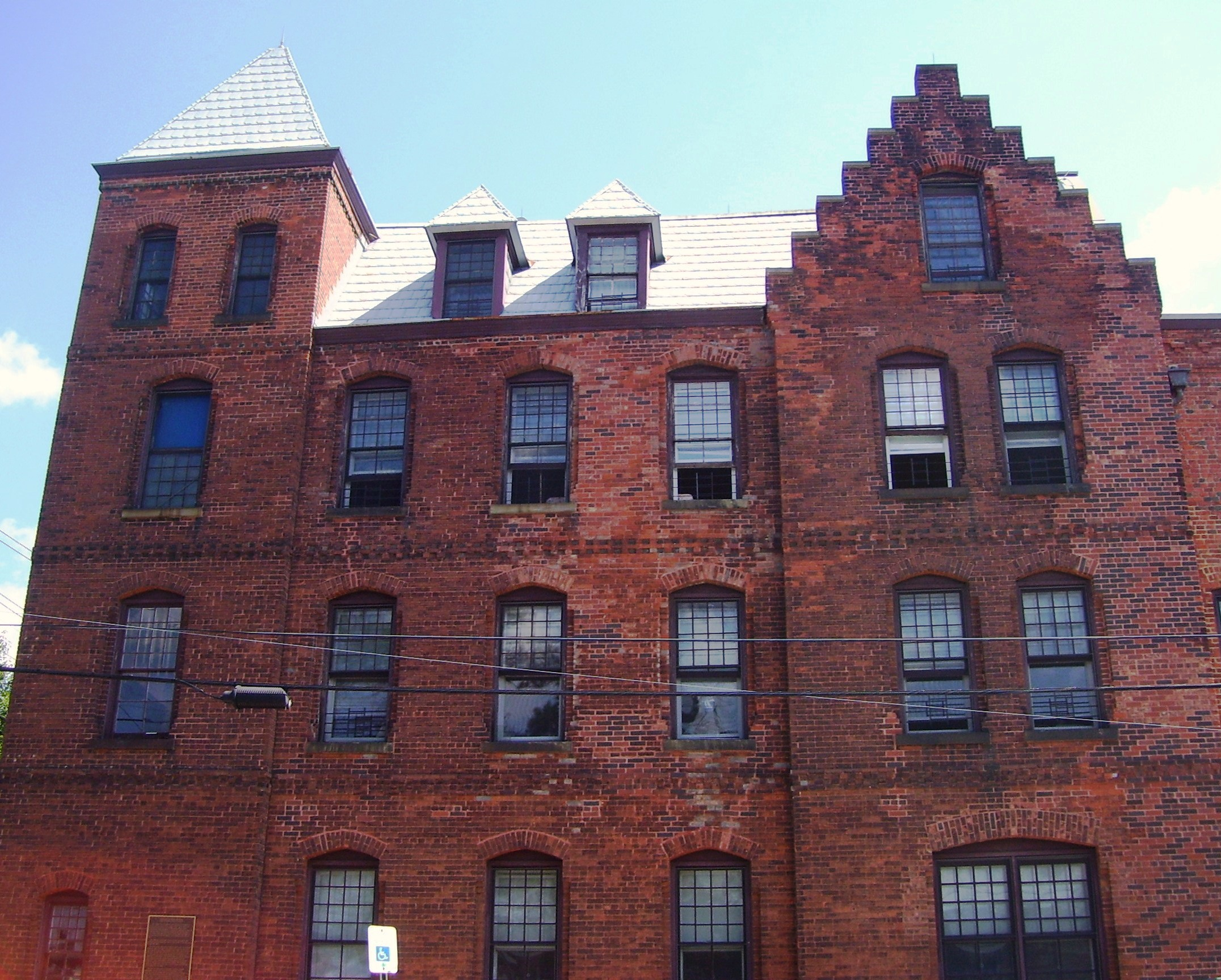 The west facade of the north end of the Lord and Burnham Building in Irvington, New York.